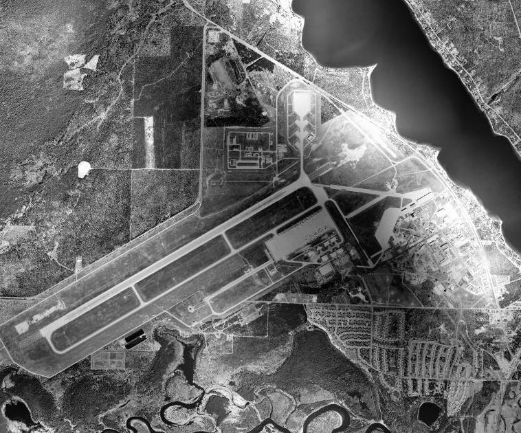 USGS orthophoto of Oscoda-Wurtsmith Airport (formerly Wurtsmith Air Force Base) in Oscoda, Michigan, United States.